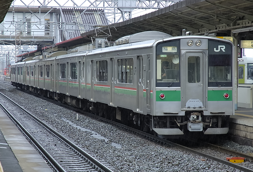 JR East 701-100 series EMU at Koriyama Station